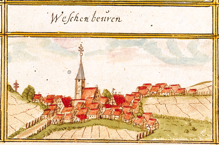 View of Wäschenbeuren from the forest register books created by Andreas Kieser